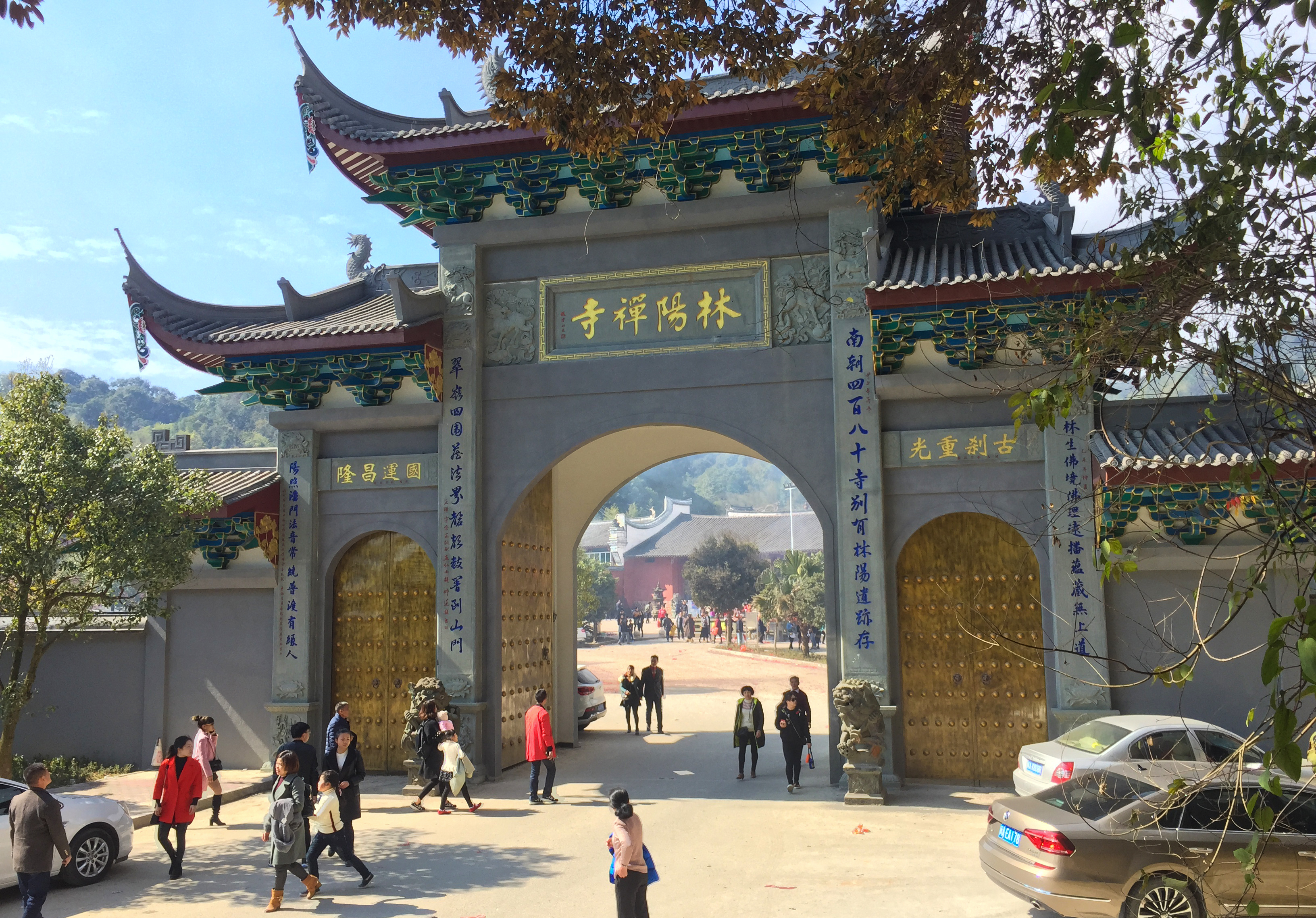 It's the first day of this lunar year, so large traffic flocks into this mountain temple.